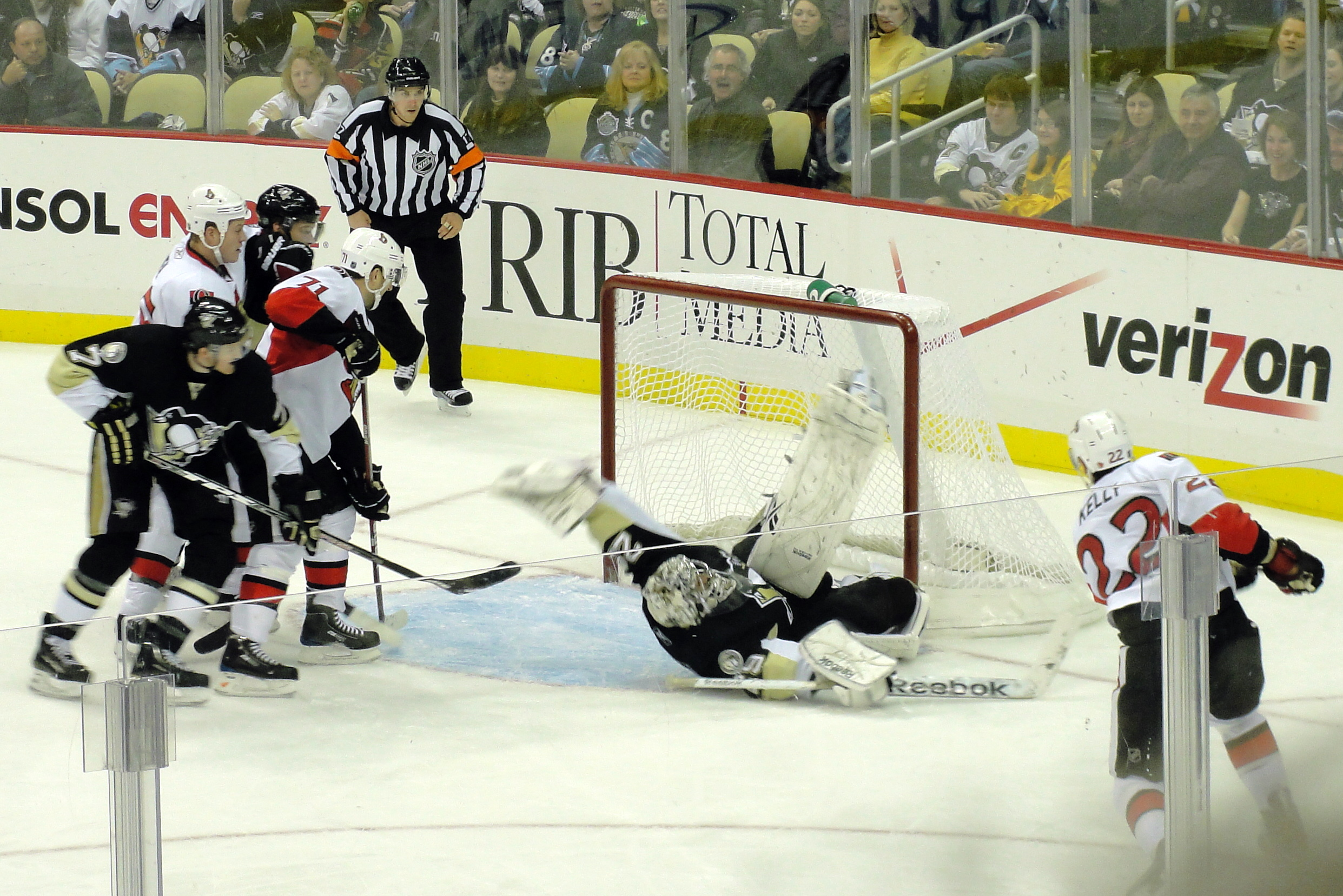 Marc-Andre Fleury makes a highlight save on Chris Kelly of the Ottawa Senators, November 26, 2010 at Consol Energy Center in Pittsburgh, PA.